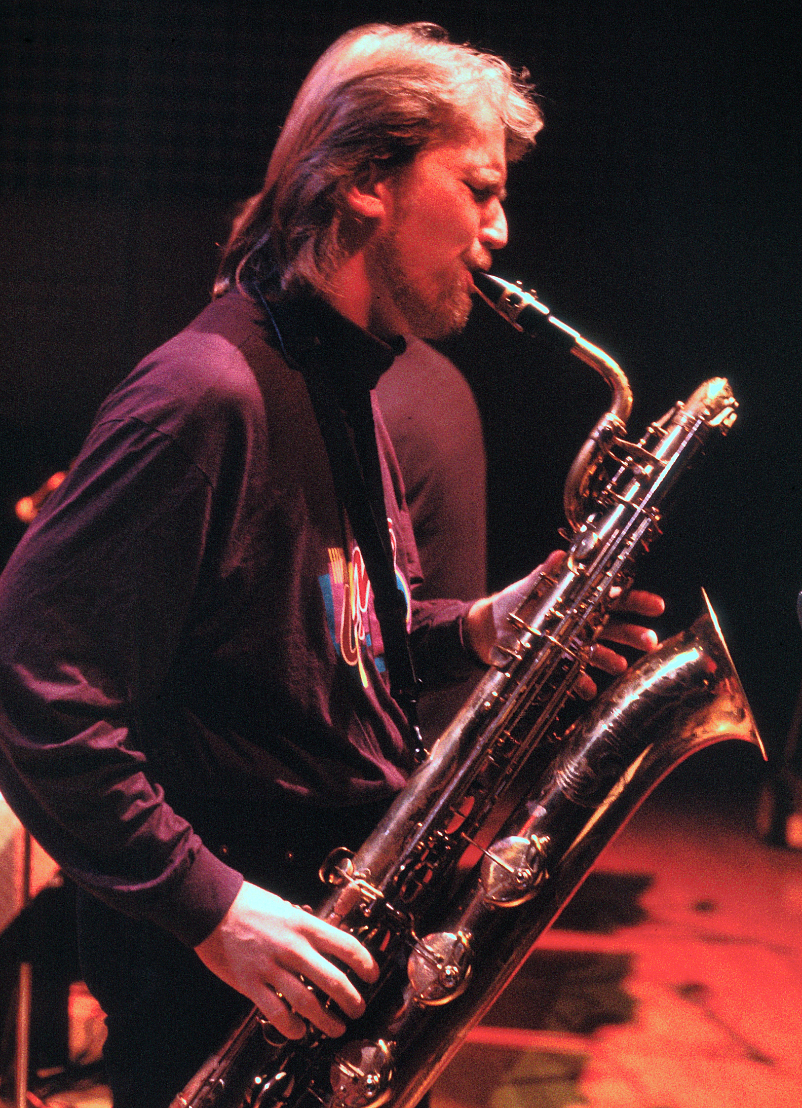 Saxophonist Pepa Päivinen plays baritone with UMO Jazz Orchestra in 1993.